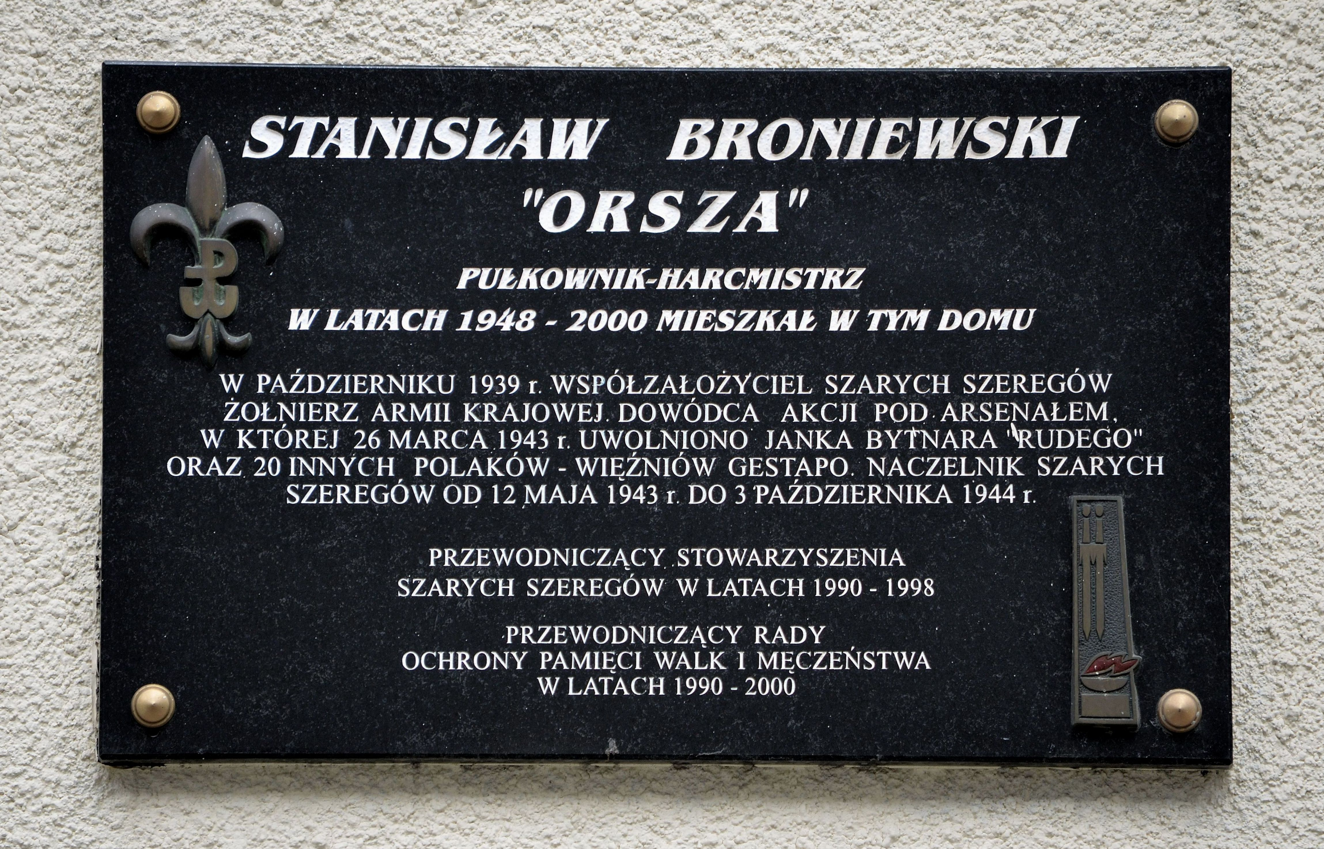 Plaque commemorating Stanisław Broniewski at 22 Grażyny Street in Warsaw